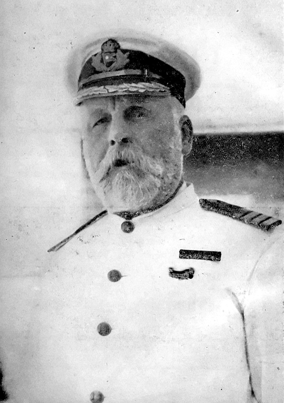 Captain Edward John Smith